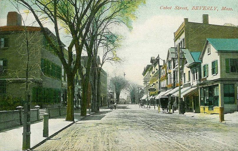 Cabot Street, Beverly, MA; from a c. 1906 postcard.